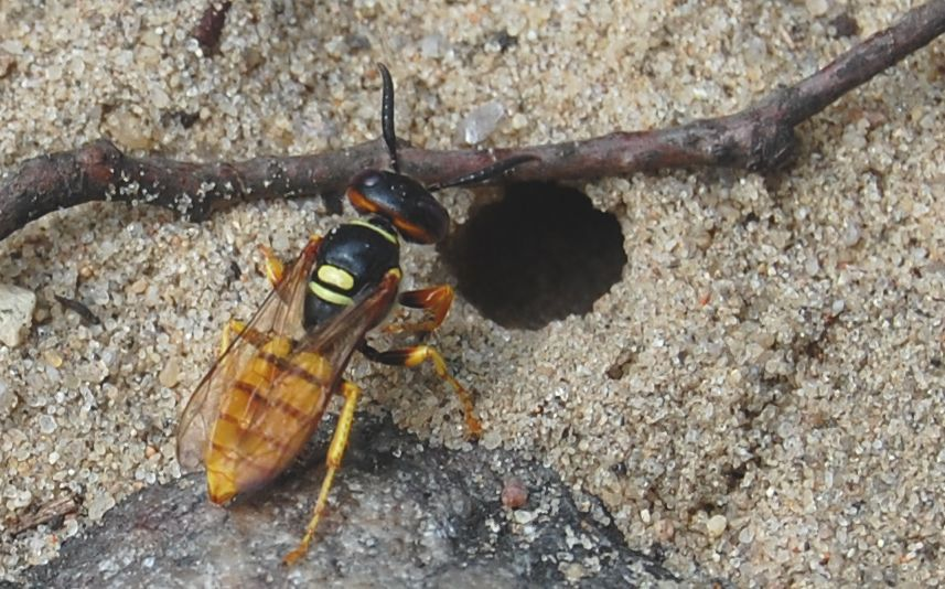 Philanthus triangulum, female in front of nest. Berlin, Germany 7. July 2007 own work